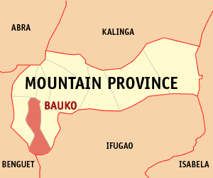 Map of Mountain Province showing the location of Bauko